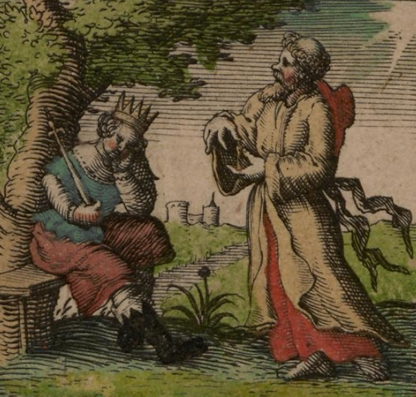 Edwin of Northumbria